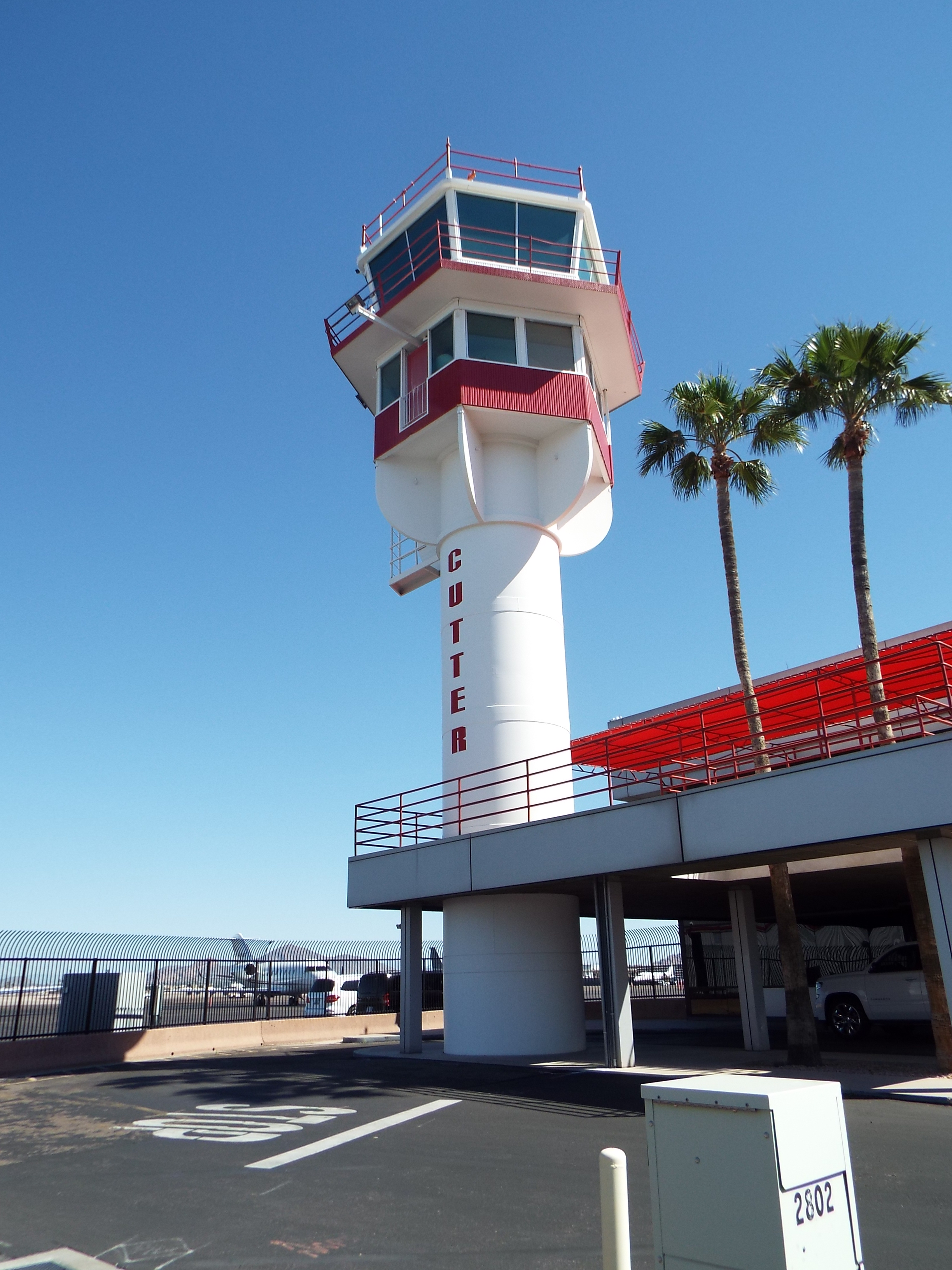 The original Sky Harbor Control Tower was built in 1952 along with Terminal 1. Terminal 1 was demolished in 1991 and the truncated iconic control tower was moved to 2768 East Old Tower Road in Phoenix, Az. where it is currently located.